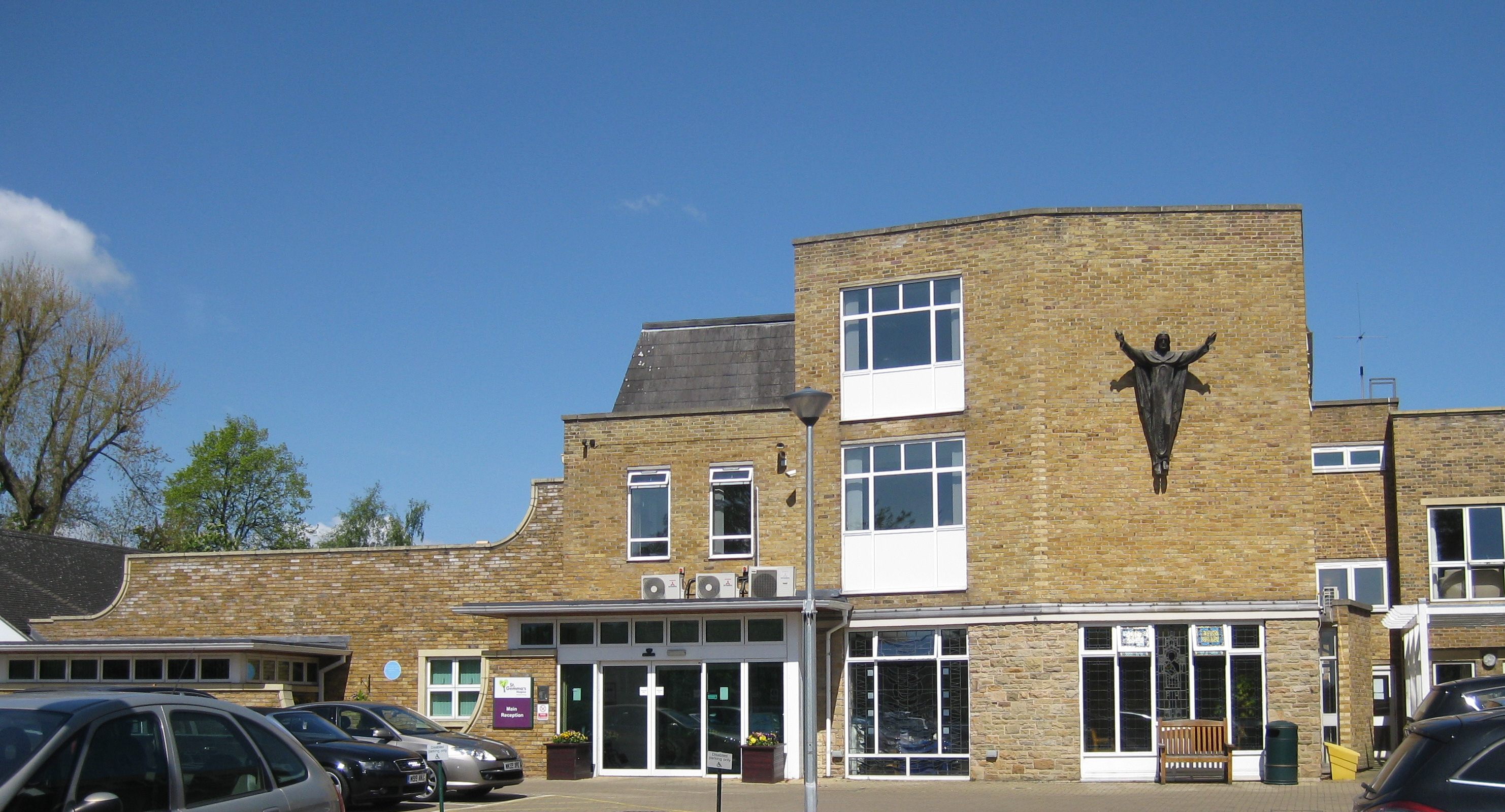 St Gemma's Hospice, 329 Harrogate Rd, Leeds LS17 6QD. Main entrance on Moorland Drive.